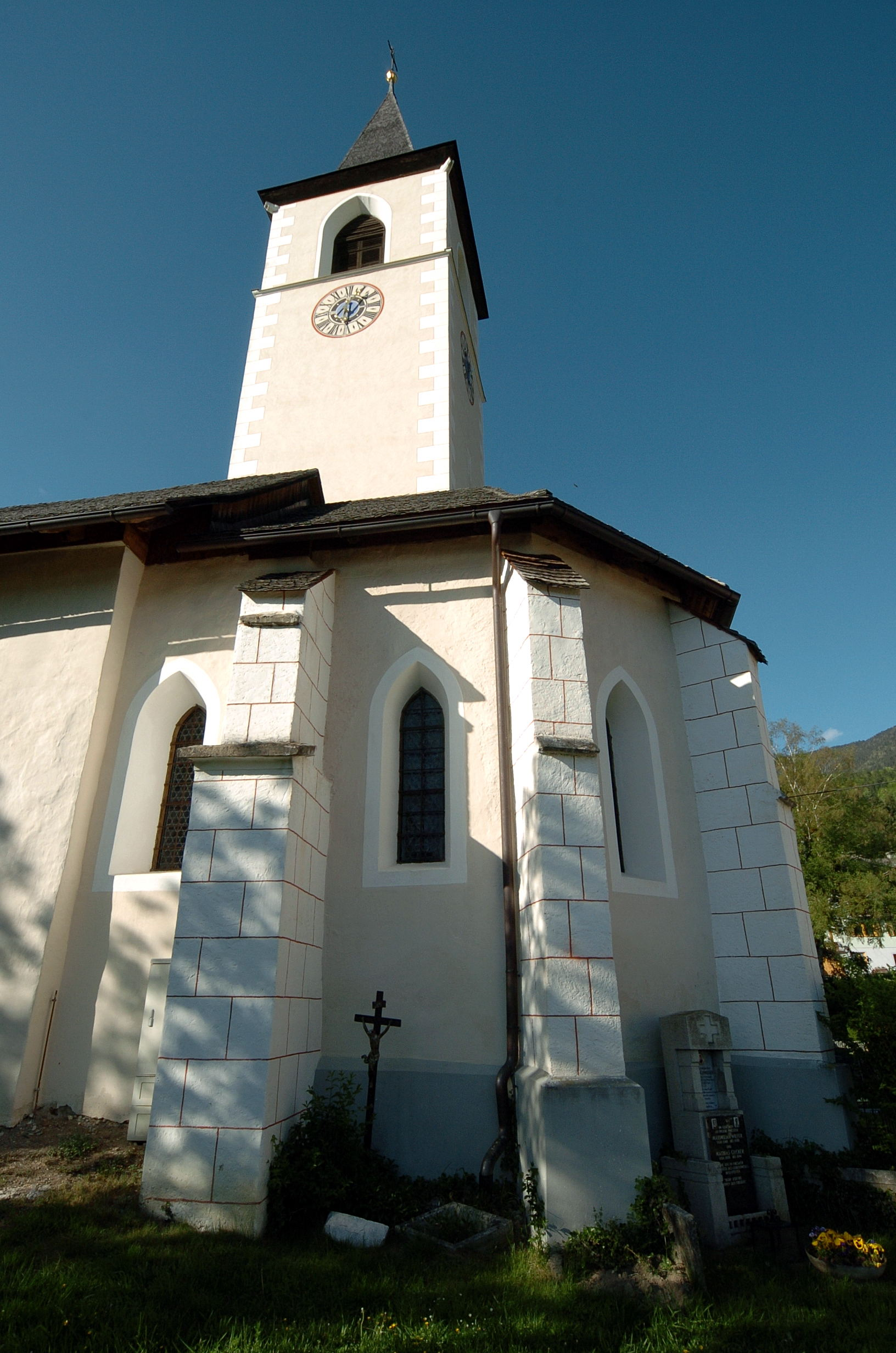 Catholic church at Fresach in the community Fresach, district Villach-Land, Carinthia, Austria